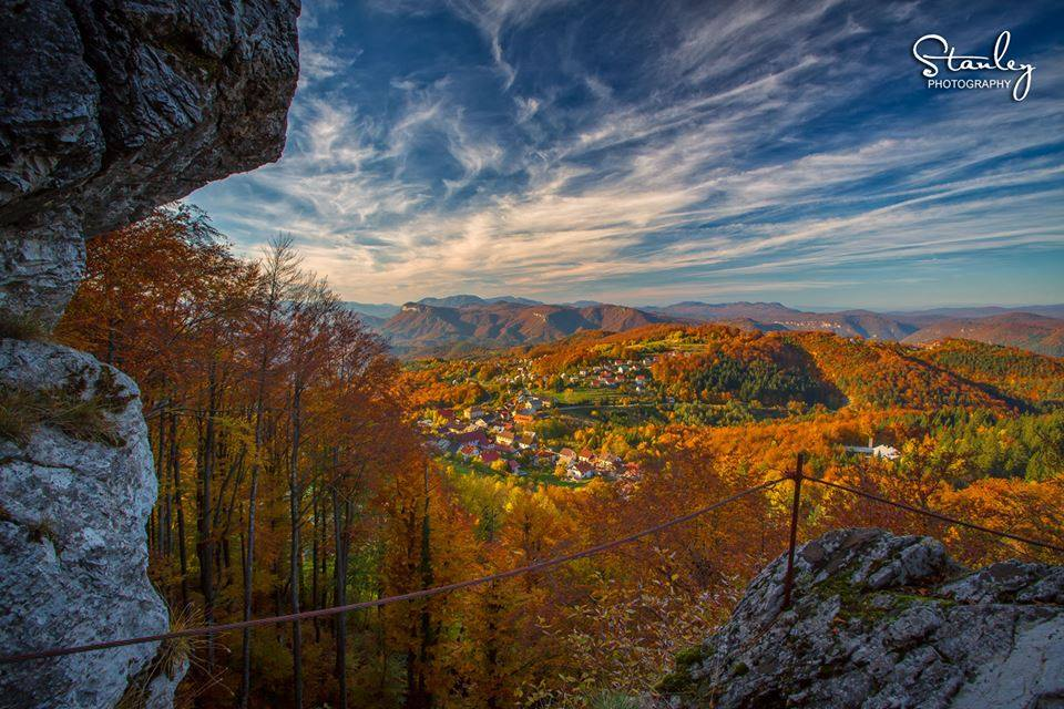 Gomirje, Croatia